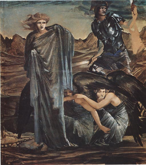 The Finding of Medusa (The Perseus Cycle 4) (1888-1892)